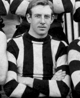 Photograph of Lance Mounsey in 1912